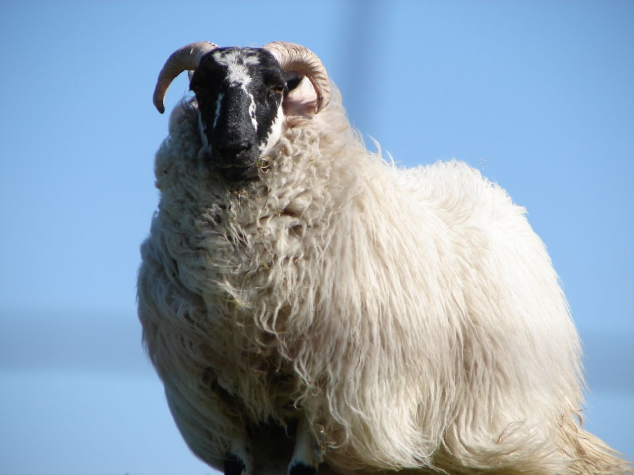 A Scottish Blackface on the Isle of Lewis.